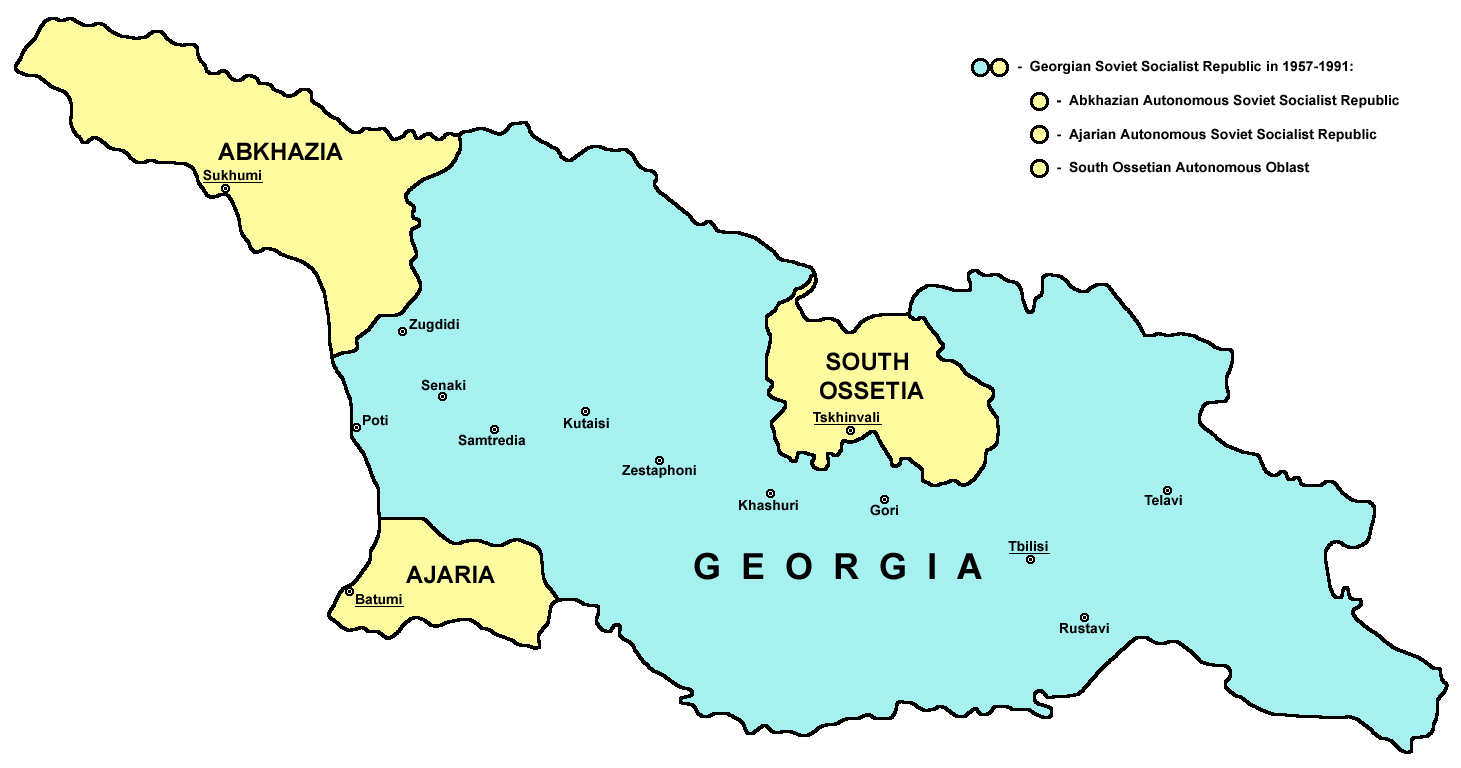 Georgian Soviet Socialist Republic in 1957-1991, including Abkhazian Autonomous Soviet Socialist Republic, Ajarian Autonomous Soviet Socialist Republic, and South Ossetian Autonomous Oblast.